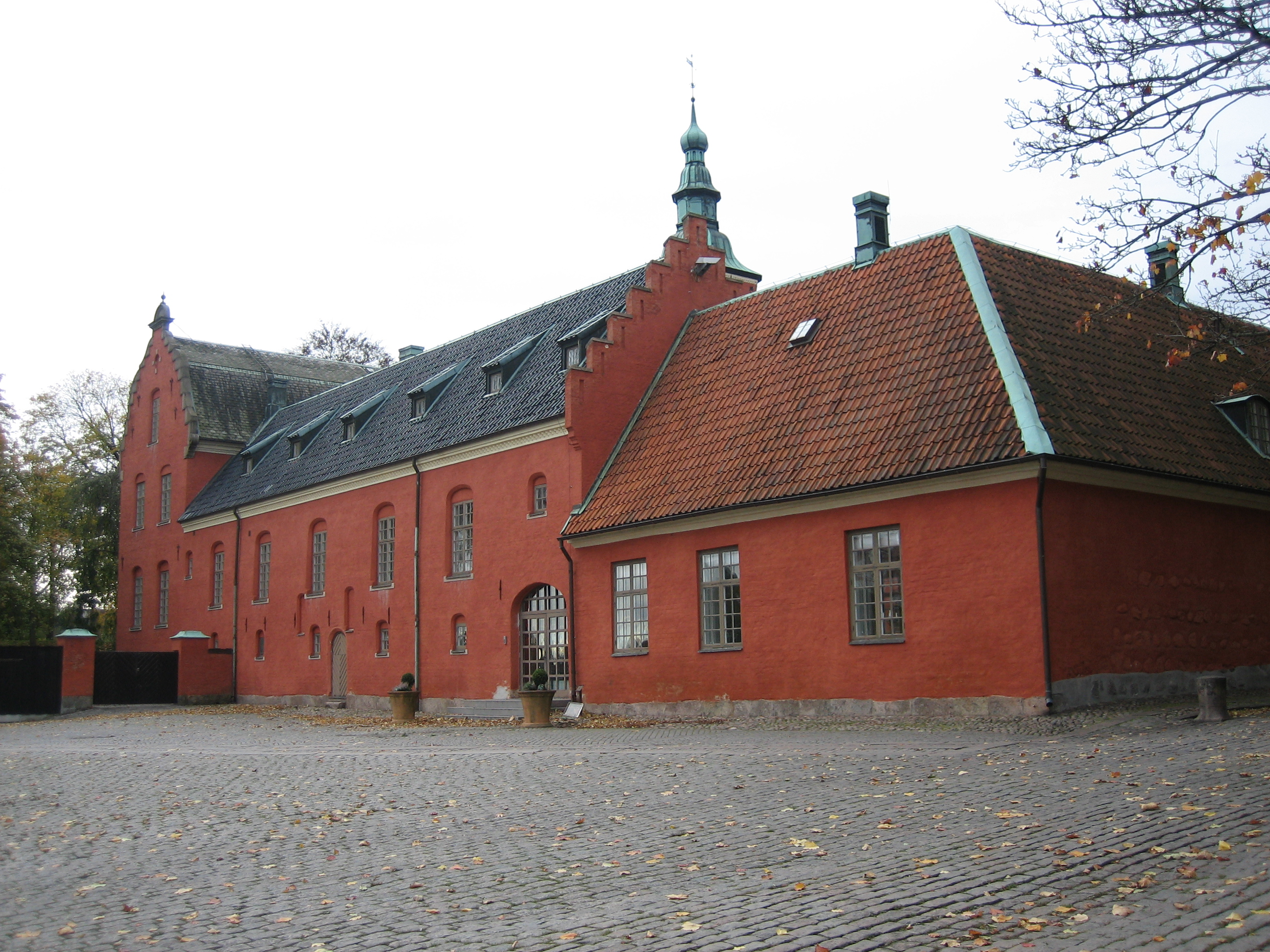 Halmstad Castle, frpn to river Nissan.